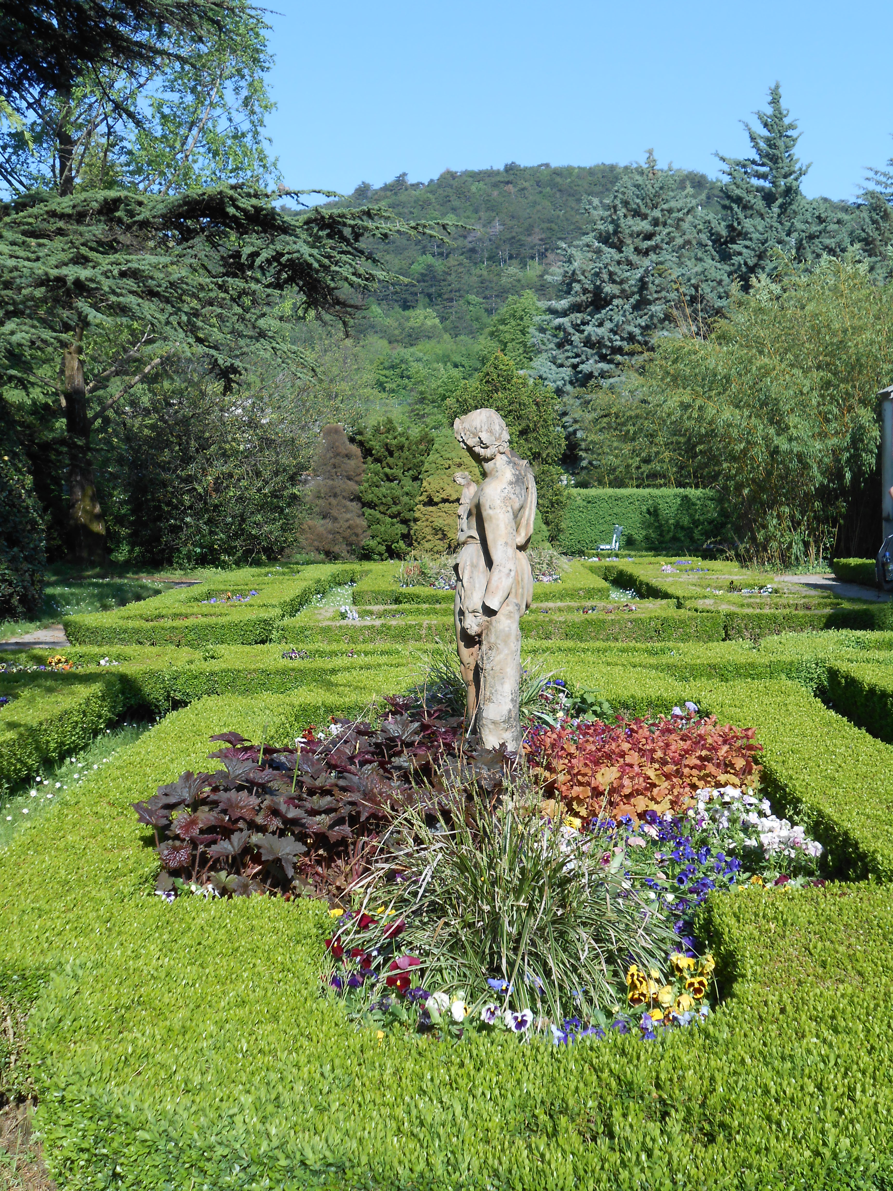 Cental bed in front of the greenhouse